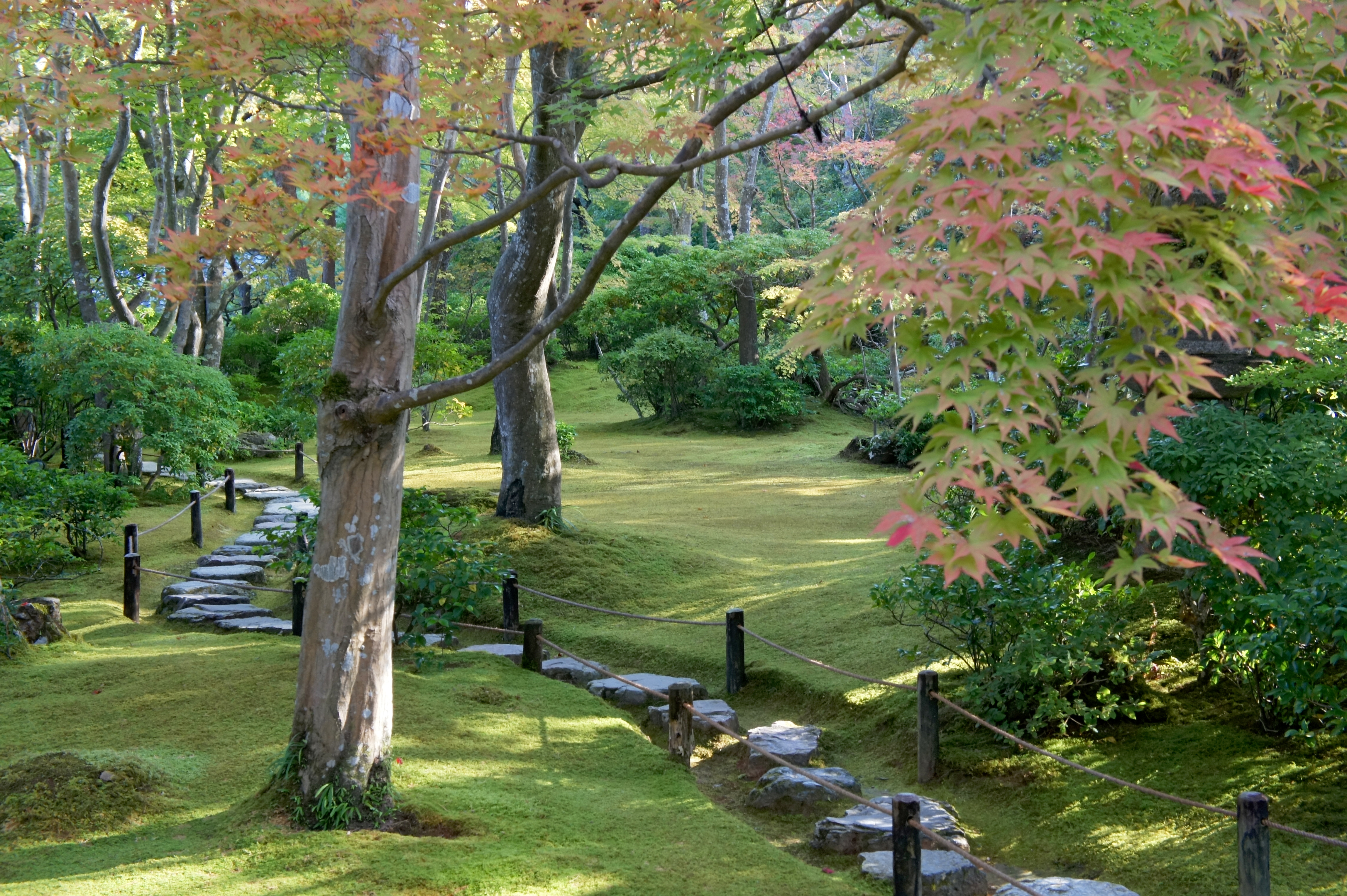 Ōkōchi Sansō in Ukyō-ku, Kyoto, Kyoto prefecture, Japan